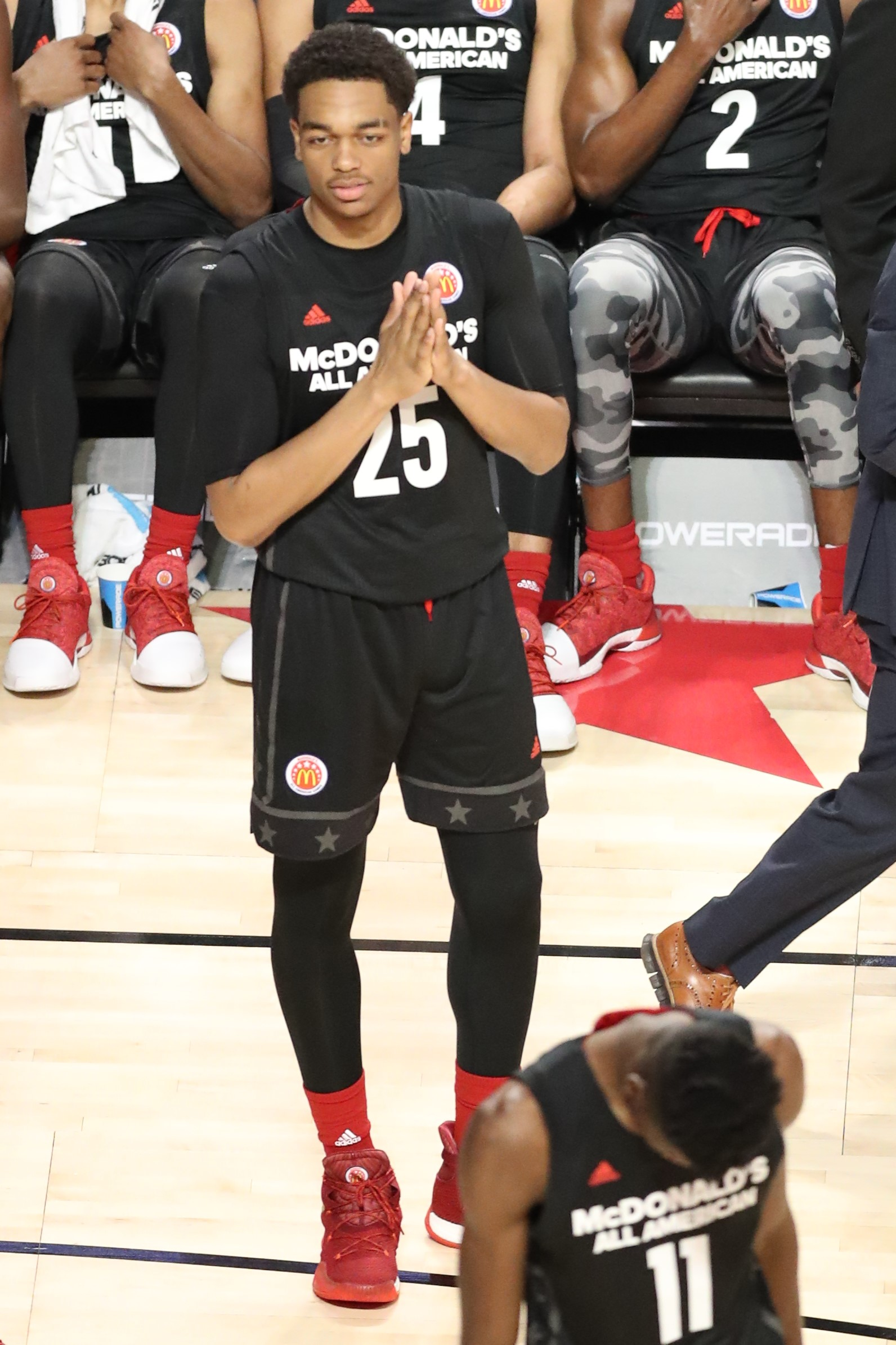 P. J. Washington at the w:2017 McDonald's All-American Boys Game